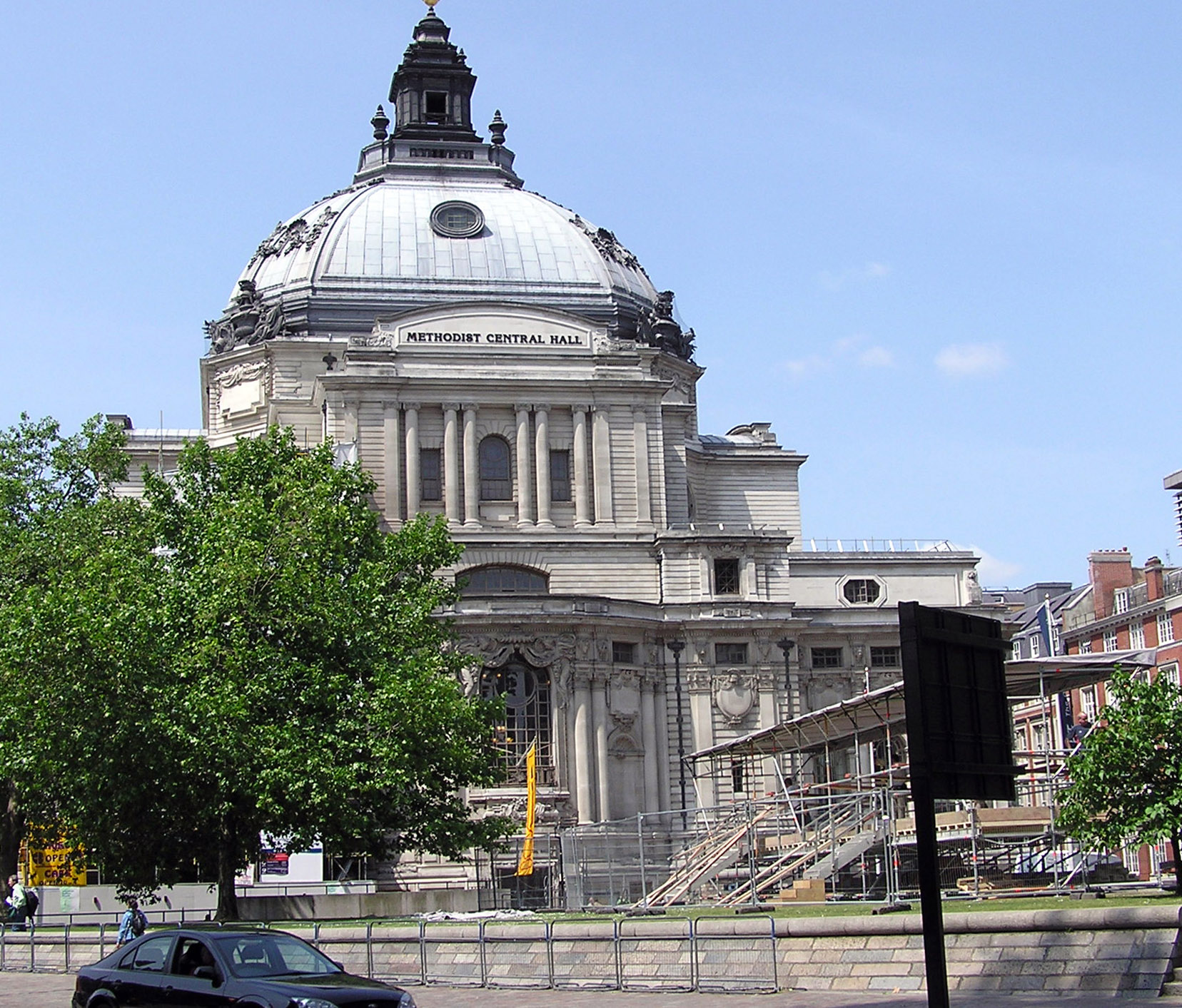 Methodist Central Hall, London, England. Photographed by Adrian Pingstone in June 2005 and placed in the public domain.